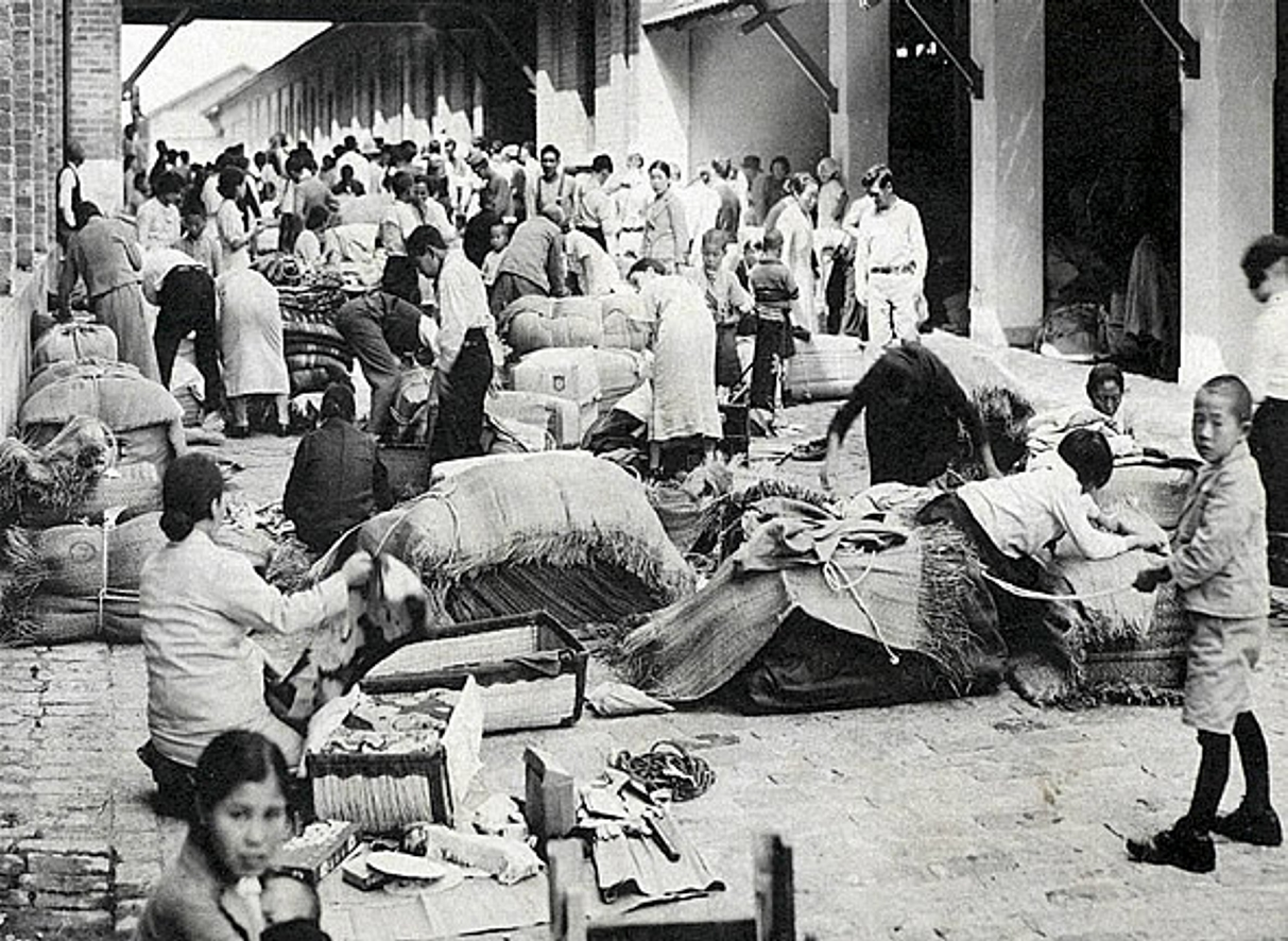 Japanese Immigrants in waiting for accommodation in Immigrant´s public lodge, circa 1930